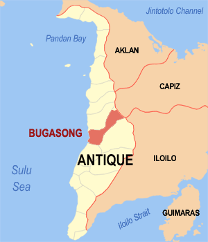 Map of Antique showing the location of Bugasong